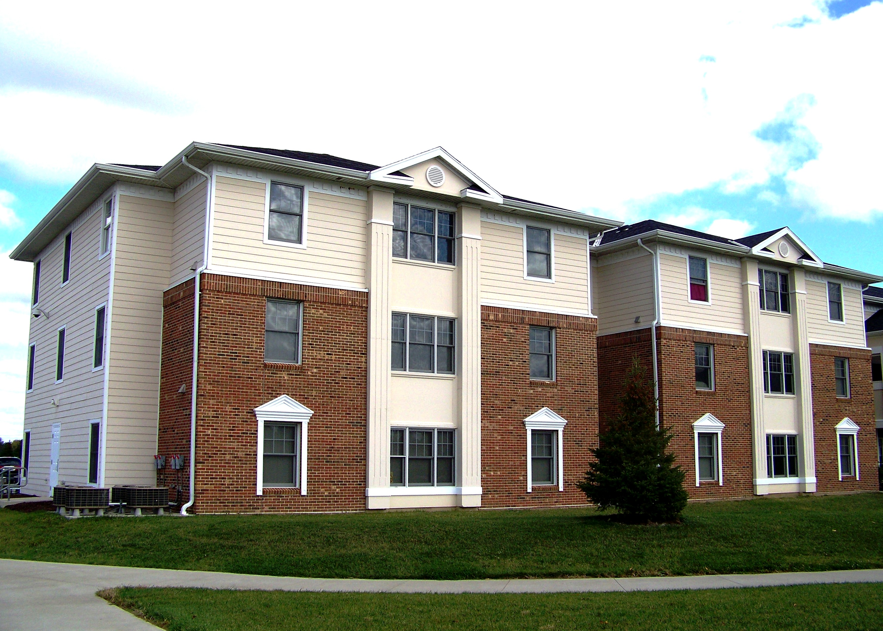 Waterfield Campus Student Housing. The groundbreaking for phase 1 of student housing took place on May 28, 2003. The units were completed in August 2004, and they were dedicated and named on September 21, 2004.